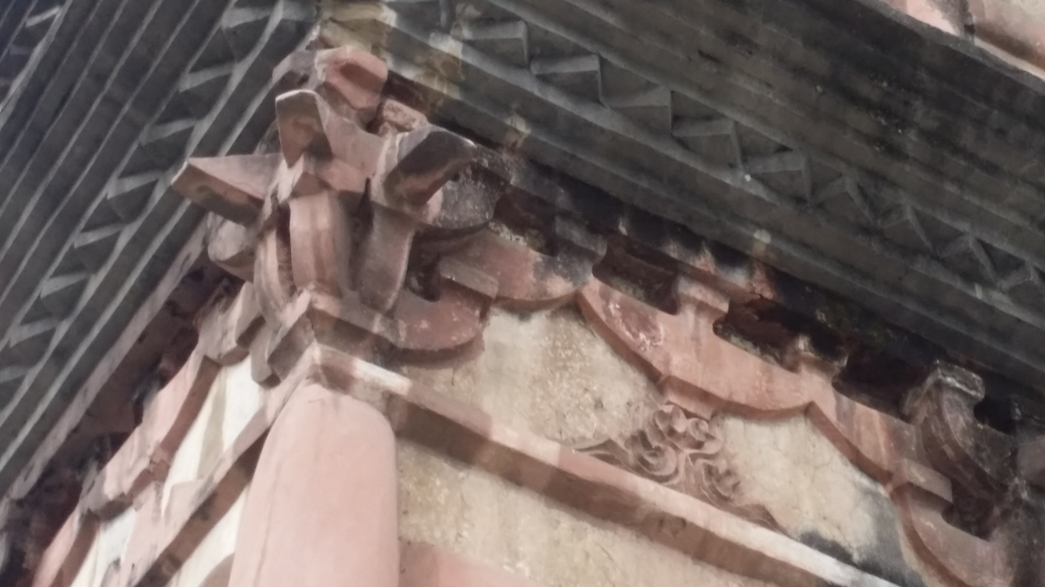 南充白塔柱，枋，斗拱细部